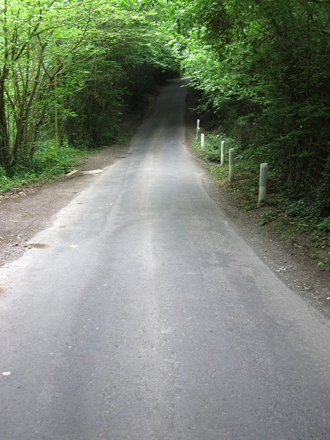 Nan Tucks Lane Heading through Solomon's Wood. Named after an old woman who was chased down this lane by the irate villagers of Buxted who believed she was a witch. What happened after is subject to dispute, some stories have her escaping others that she was caught and hanged in nearby Tucks Wood